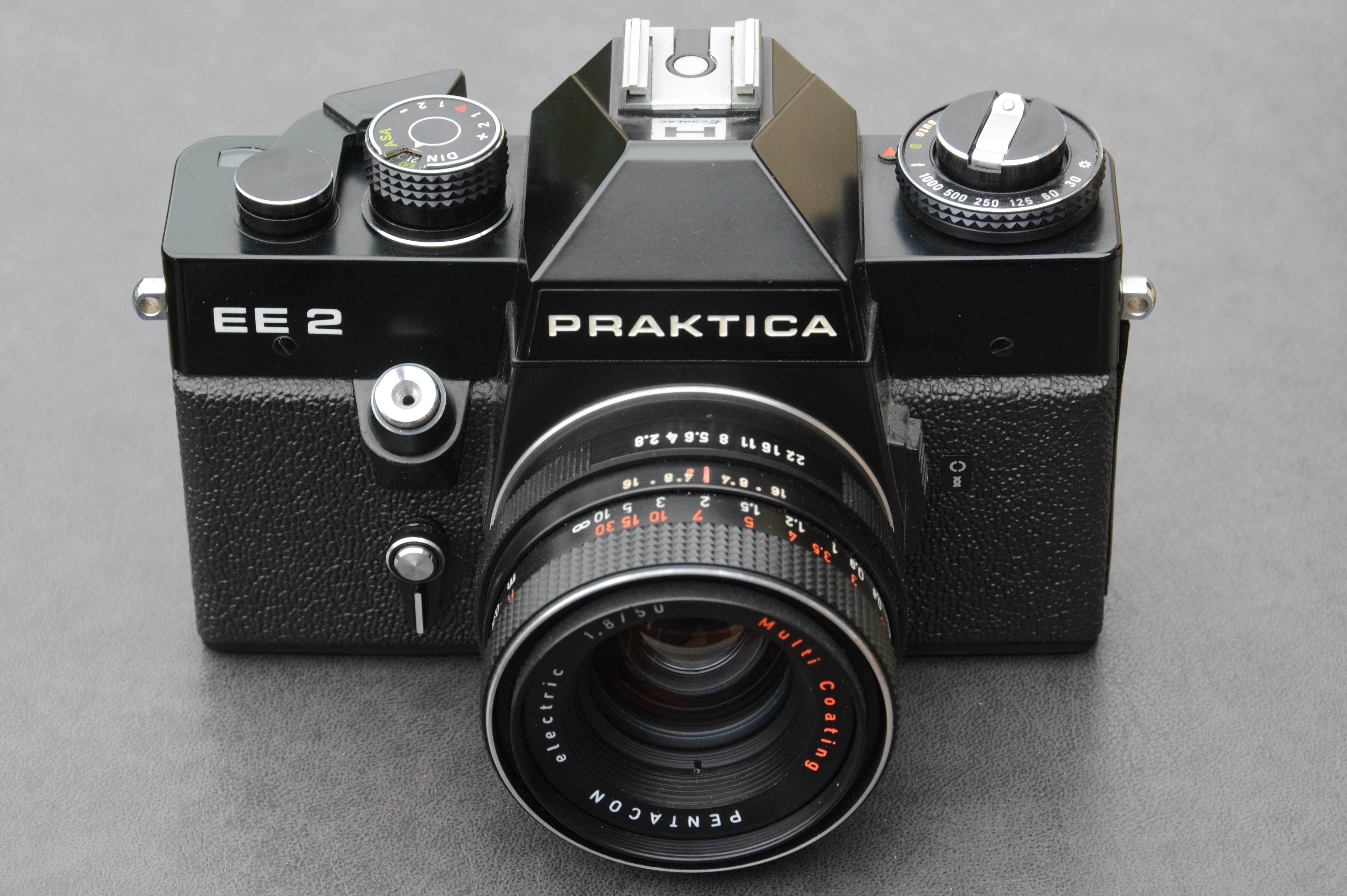 Praktica EE2 SLR with Pentacon electric 1,8/50 lens; 1977